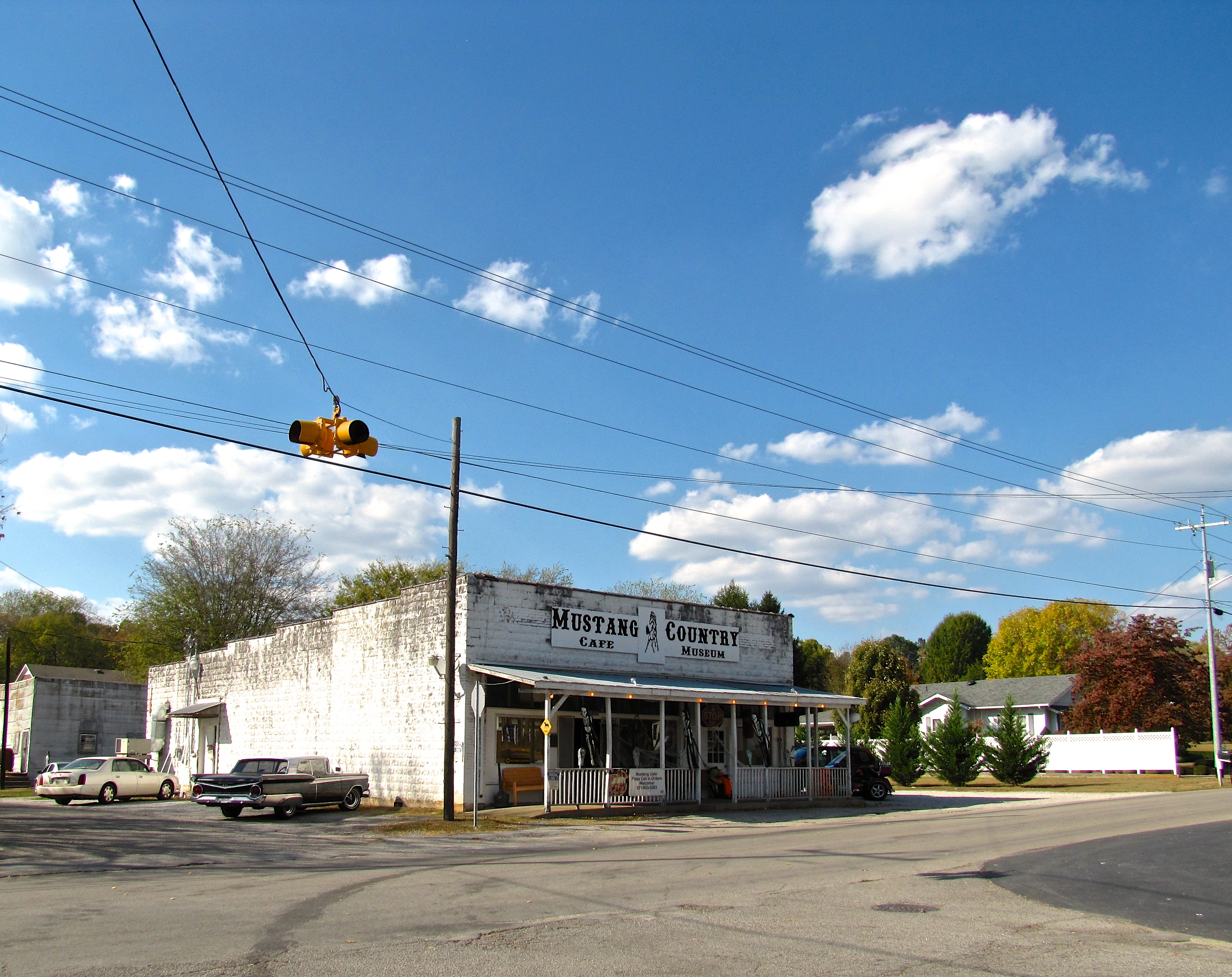 Mustang Café, or Mustang Country Café, in Loretto, Tennessee, United States.